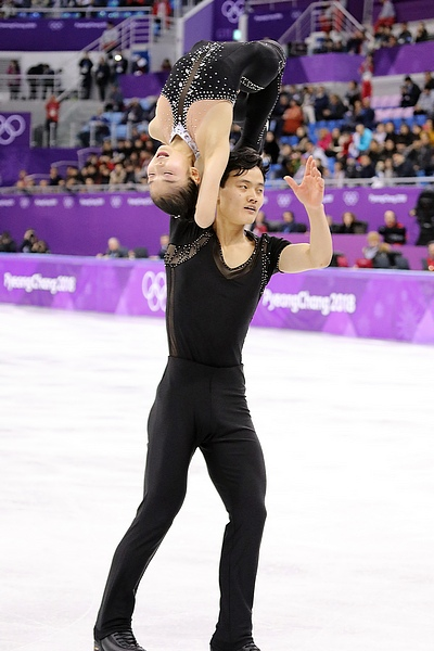 Photos – Olympics 2018 – Pairs (RYOM Tae Ok KIM Ju Sik PRK – 13th Place)